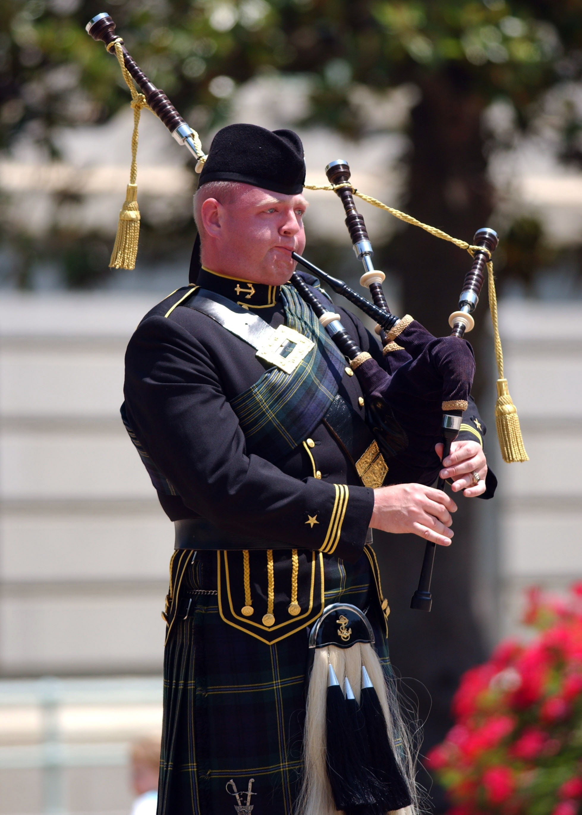 070522-N-1134L-004 ANNAPOLIS, Md. (May 22, 2007) - U.S. Naval Academy Pipes and Drums Commander Midshipman 1st Class Jeremy Severson conducts his final performance before graduation as a member of the Class of 2007. Officially recognized as a Brigade Support Activity in 1999, the Naval Academy Pipes and Drums is the Department of the Navy’s only active pipe band. The 42-person group provides highland musical support to the Brigade of Midshipmen and the larger Naval Academy community, both on and off the Yard. Their performance was one of a series of events celebrating the graduation and commissioning of the Naval Academy Class of 2007. U.S. Navy photo by